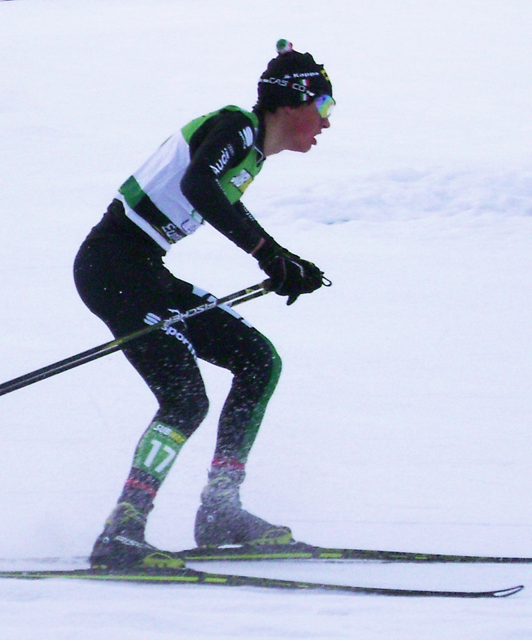 Italian nordic combined skier Samuel Costa at Lahti Ski Games 2014.